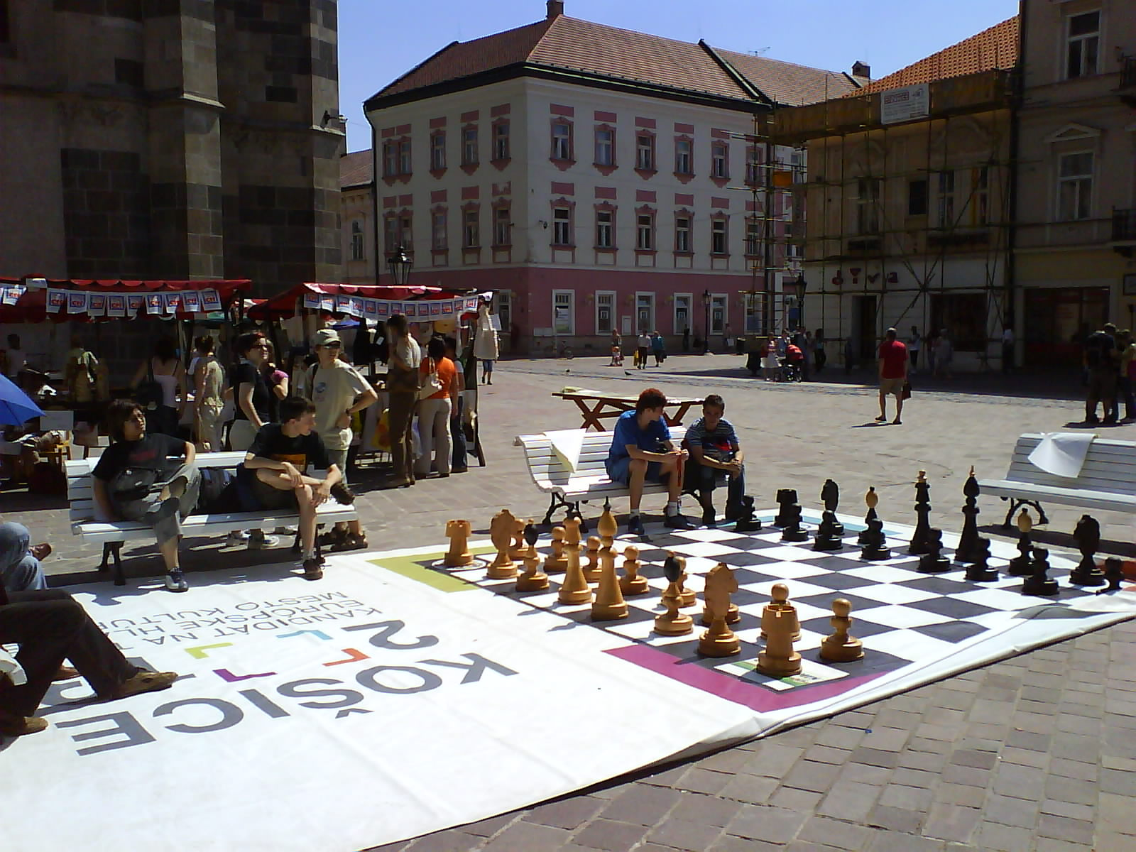 Summer is the time for culture. Lots of outdoor activities are available in Kosice each summer.